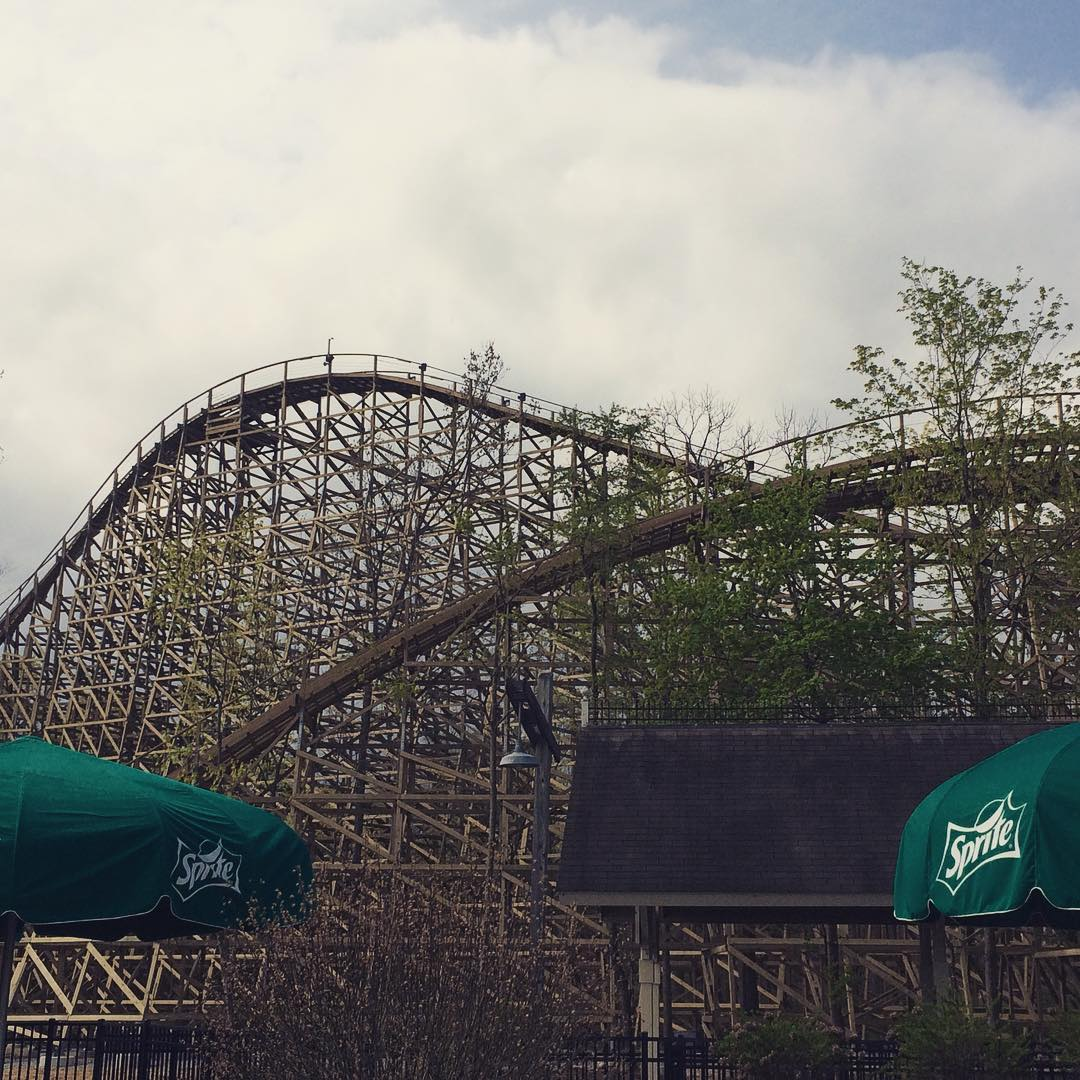 A Photo of the Mystic Timbers Lift Hill on April 16th 2017